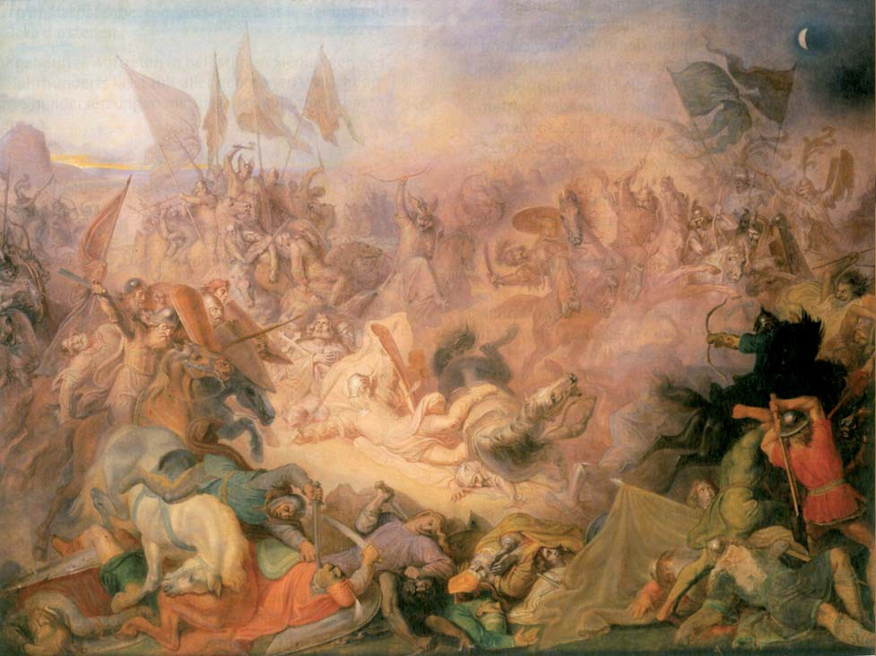 Painting about the battle of Pressburg in 907 between the Magyars and the Bavarians, in which Luitpold, Margrave of Bavaria was defeated and killed.